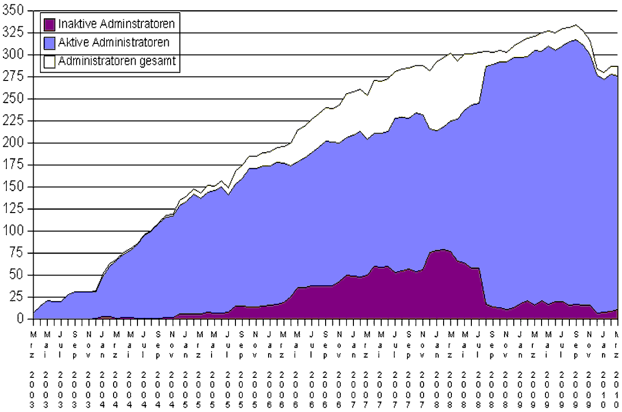 Graphic on Sysops on de.wikipedia. The apparent sudden "reactivation" is due to a change in the definition of inactive admins (see WP:Liste der Administratoren).